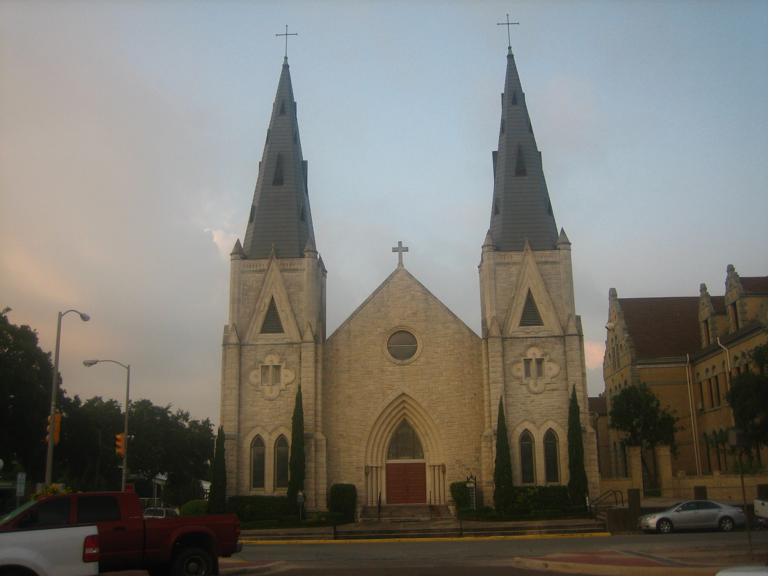 St. Mary's Church. I took photo on July 31, 2008.Billy Hathorn (talk) 22:24, 17 August 2008 (UTC)